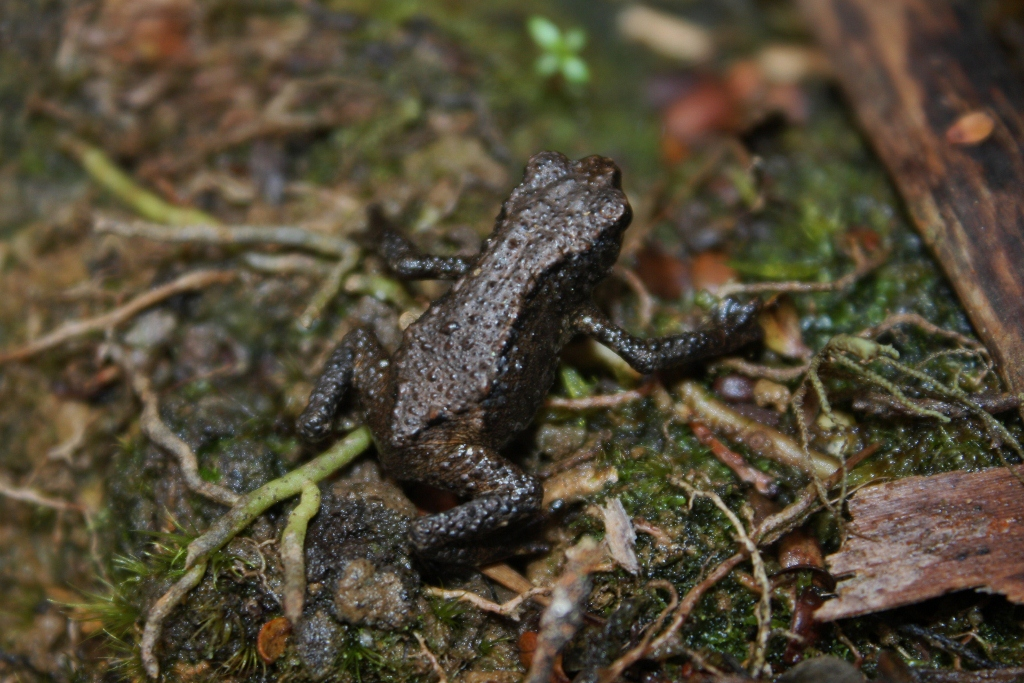 I'd heard these calling a lot as we climbed up through the beautiful cloud forest zone towards Mt. Kinabalu basecamp, but they always appeared to be just out of safe reach. I was so thrilled when I actually managed to find this little chap, he was tiny, quite a dull brown and slow moving, my guide thought I was nuts.... This was taken at about 2500m.